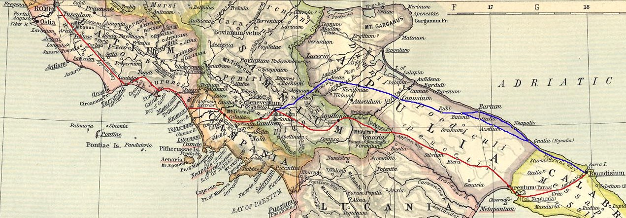 Ancient roman Appia road (from a William R. Shepherd 1911 map). The original track is in red color. In blue color a subsequent parallel track built under Traiano emperor and named Appia Traiana